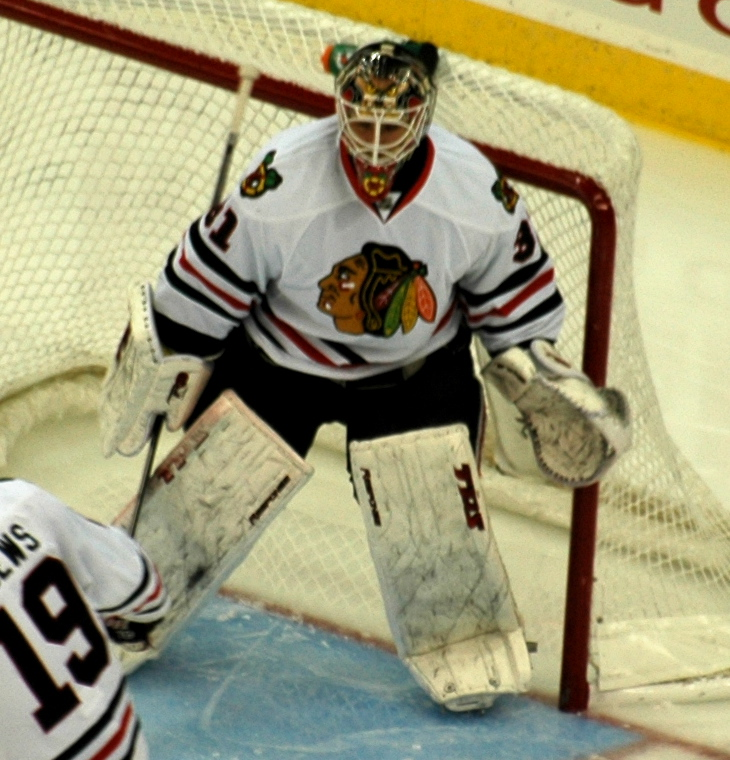 Antti Niemi plays with Blackhawks in New Jersey